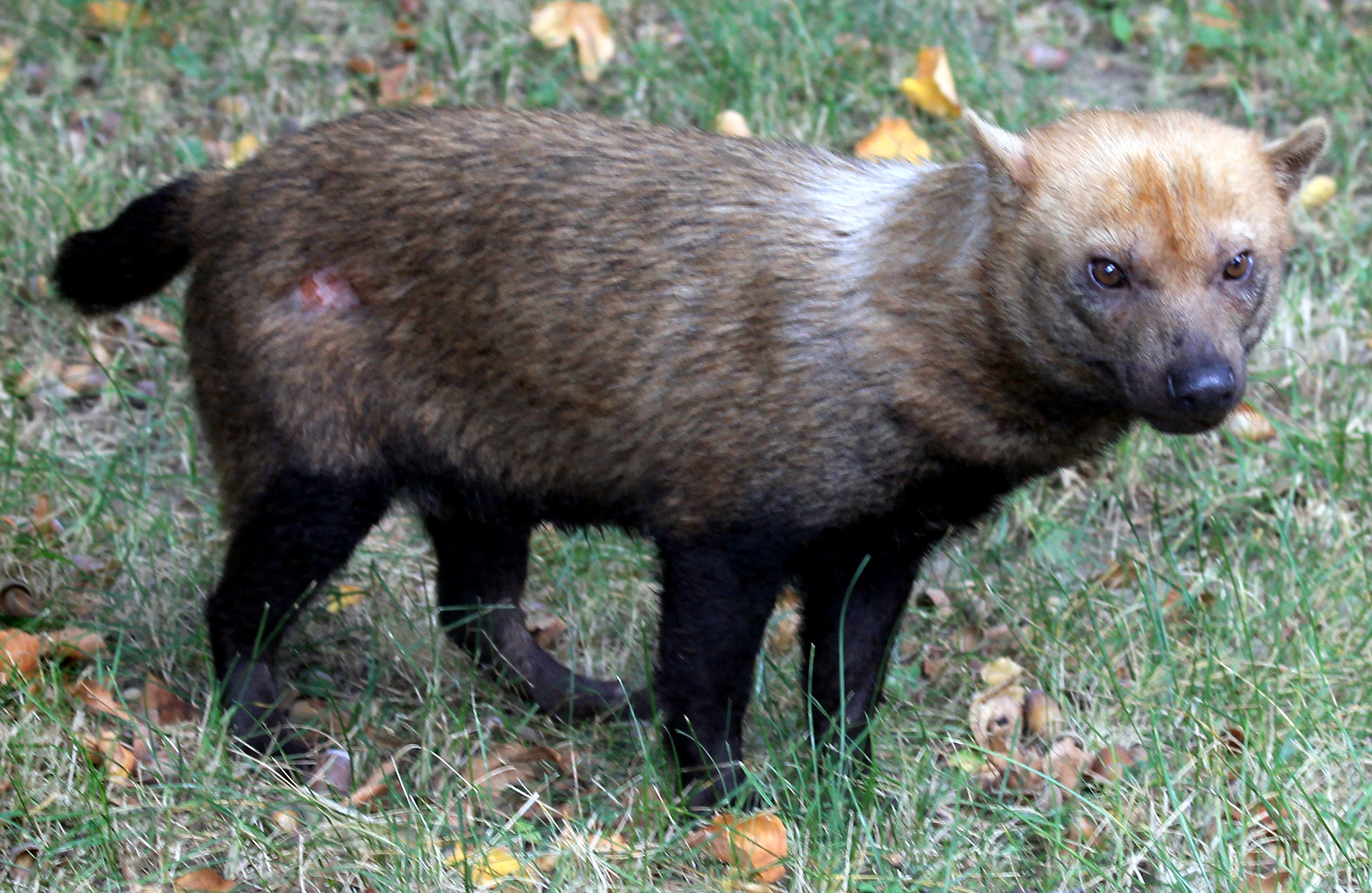 Bush dog (Speothos venaticus) in Prague Zoo, Czech Republic